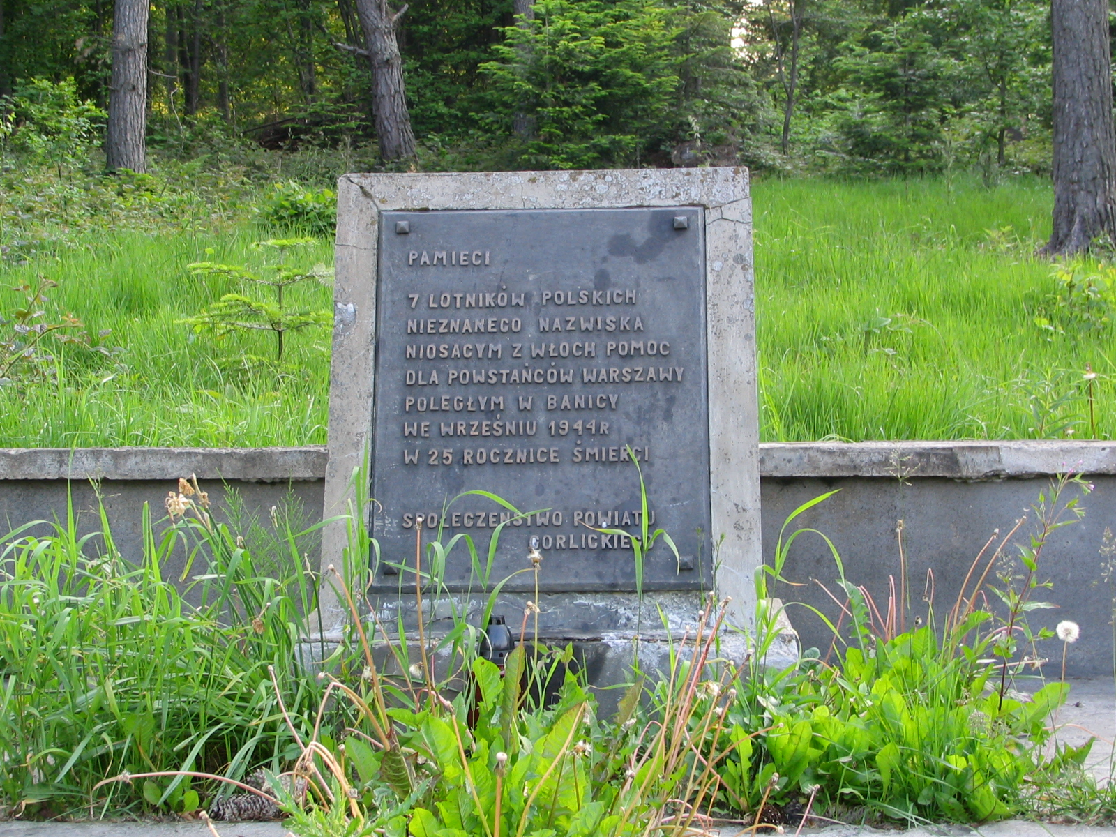 Poland, Beskid Niski, Krzywa, Banica - Monument to Polish pilots shot down during mission of bringing supplies to Warsaw Uprising. Formerly it was believed the aircraft was a "Liberator B-24"; however, recent excavation at the Banica crash site which took place in September 2006 resulted in the identification of the aircraft as Halifax not Liberator. Parts were sent for identification to the RAF Museum in Hendon, London by the excavation team. The excavation was led by Professor Krzysztof Wielgus of Cracow Polytechnik and Polish Aviation Museum in Cracow and it is believed that the remains belong to Halifax JP 295 from Polish Special Duties Flight 1586 (formerly Squadron 301), captained by Fl/Lt Franciszek Omylak. This Halifax went missing during an operation during the Warsaw Uprising in August 1944 in which supplies were flown from Brindisi in Italy to Warsaw to assist the Home Army. The remains of the Halifax crew were buried in the cemetery in Krzywa after the crash, but in 1980 two bodies were removed from their graves erroneously and buried in Rakowice Cemetery, Cracow. Tragically they were buried under the names of crew members of a Liberator aircraft which crashed at Olszyny (more than 30 km away from Banicy) 10 days earlier. It is planned that the names of the seven crew members of the Halifax will be placed on this monument in recognition of their bravery. See the following websites for